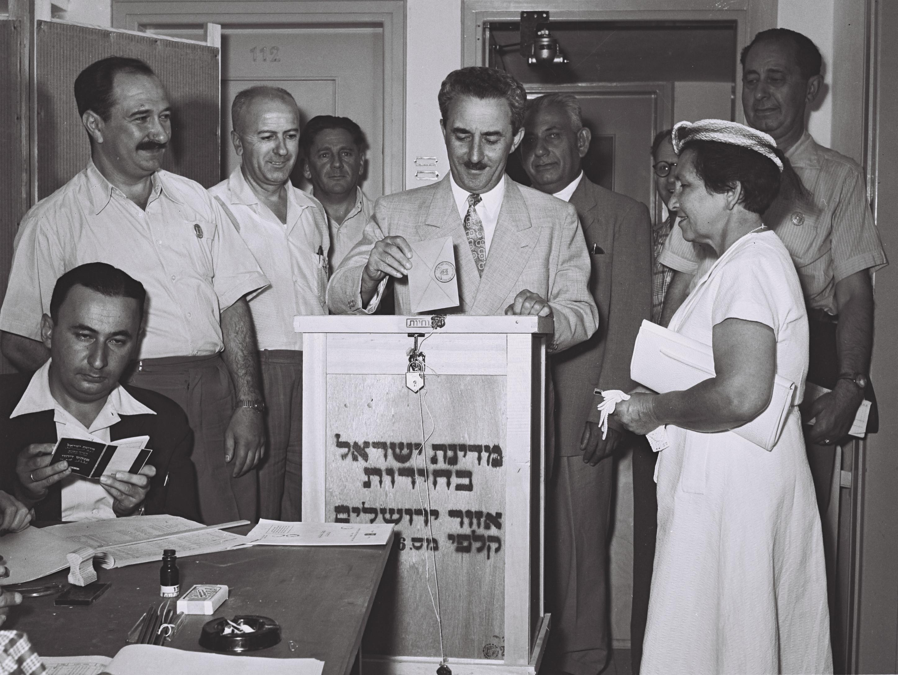 Original Description: PRIME MINISTER MOSHE SHARETT CASTS HIS BALLOT DURING ISRAEL KNESSET AND MUNICIPAL ELECTIONS.